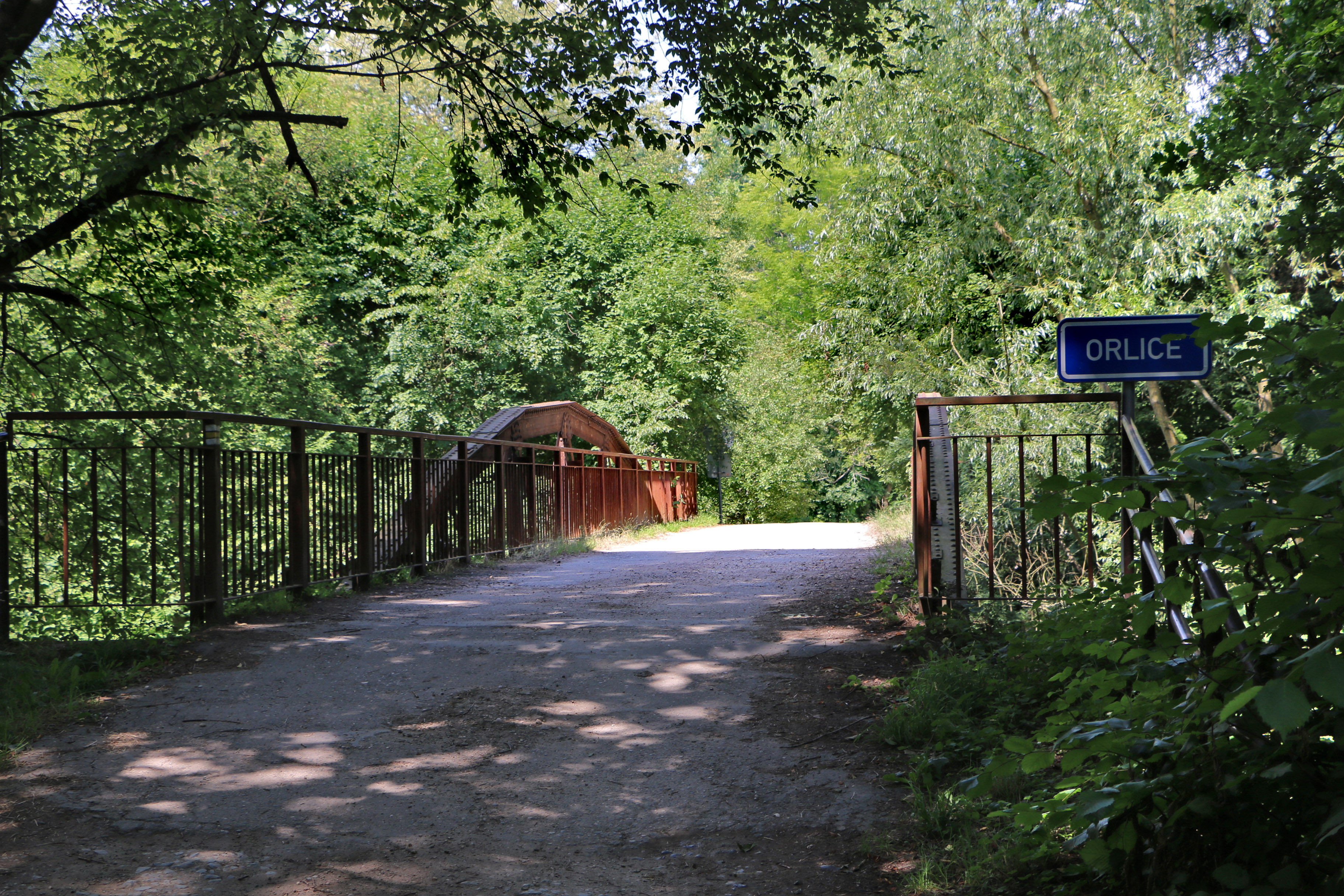 Bridge over Orlice river in Štěnkov, part of Třebechovice pod Orebem, Czech Republic.